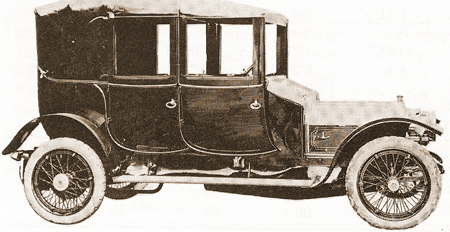 1911 Crowdy